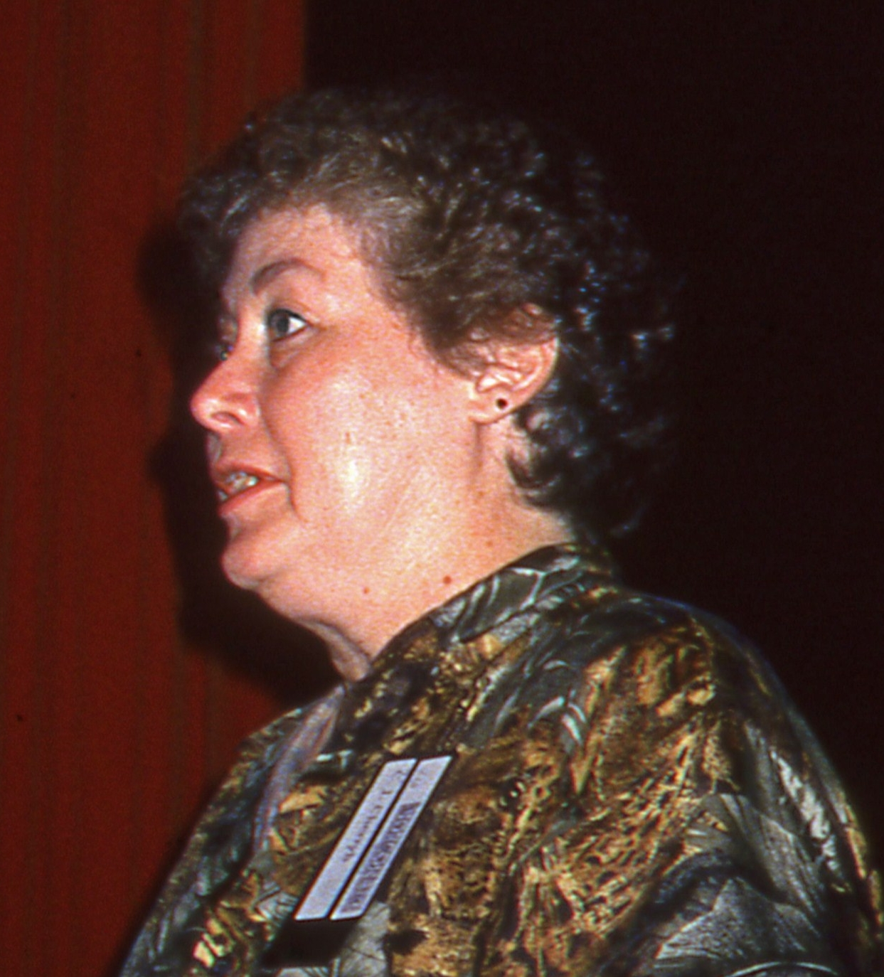 C. J. Cherryh at Norcon 12, a Norwegian science fiction convention in Oslo, August 1994.